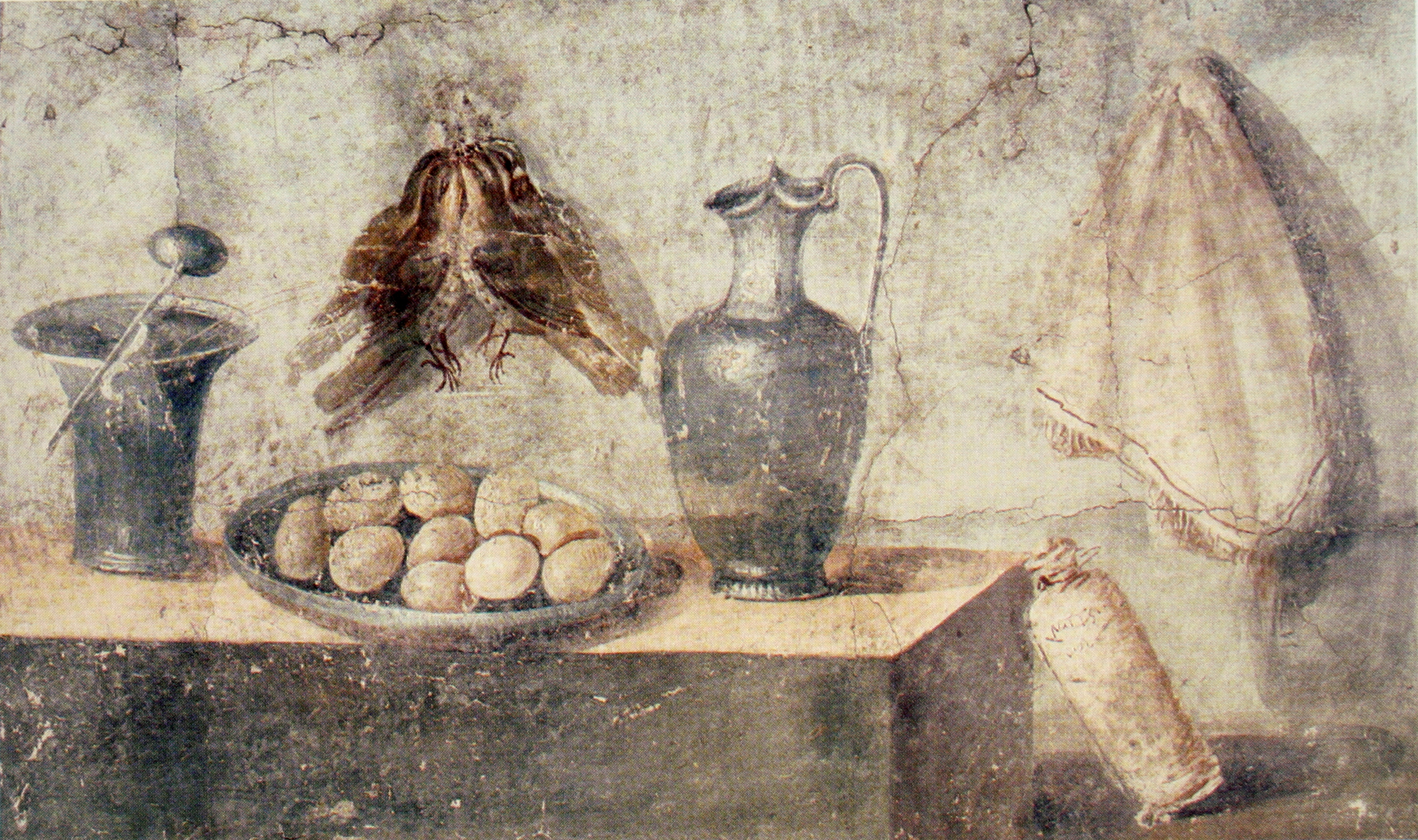 Still life with eggs, birds and bronze dishes, from the House of Julia Felix, Pompeii. Height: 74 cm.